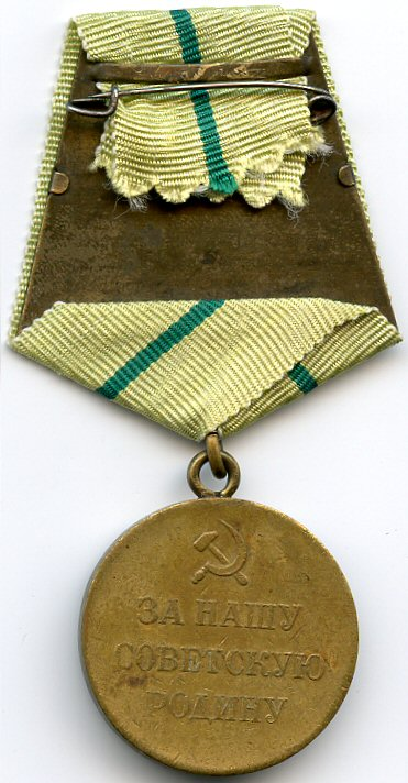 Reverse of the Soviet campaign medal "For the Defence of Leningrad". Unknown